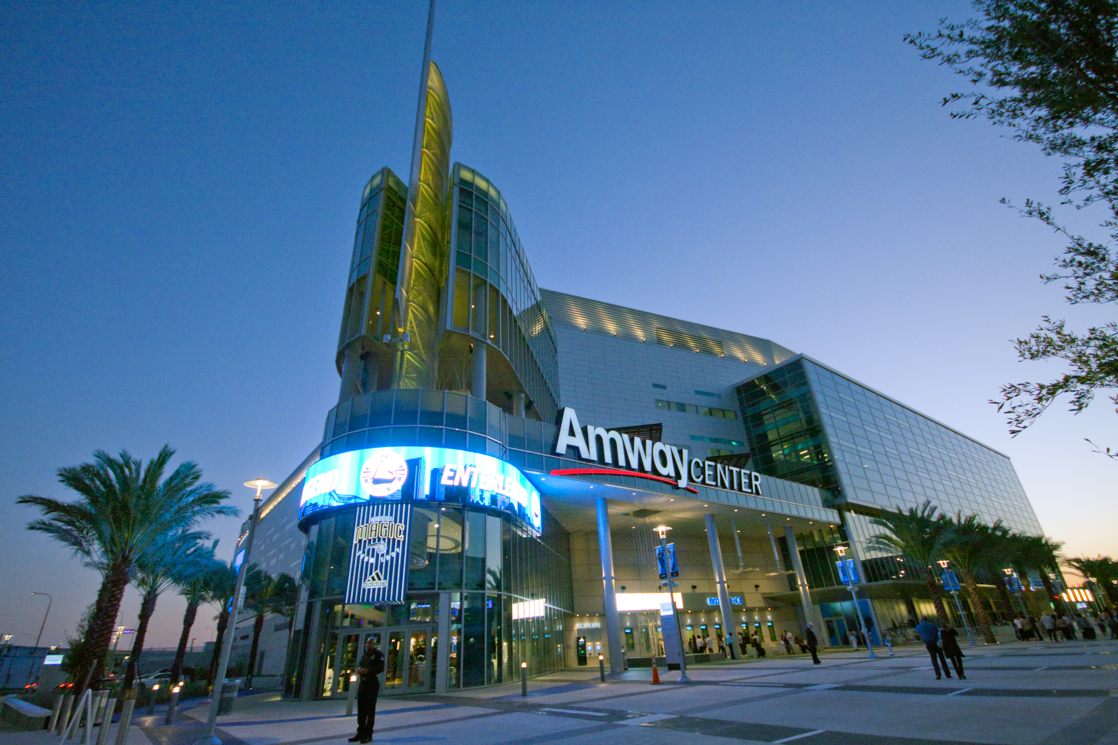 The new Amway Center, an indoor arena in Orlando, Florida